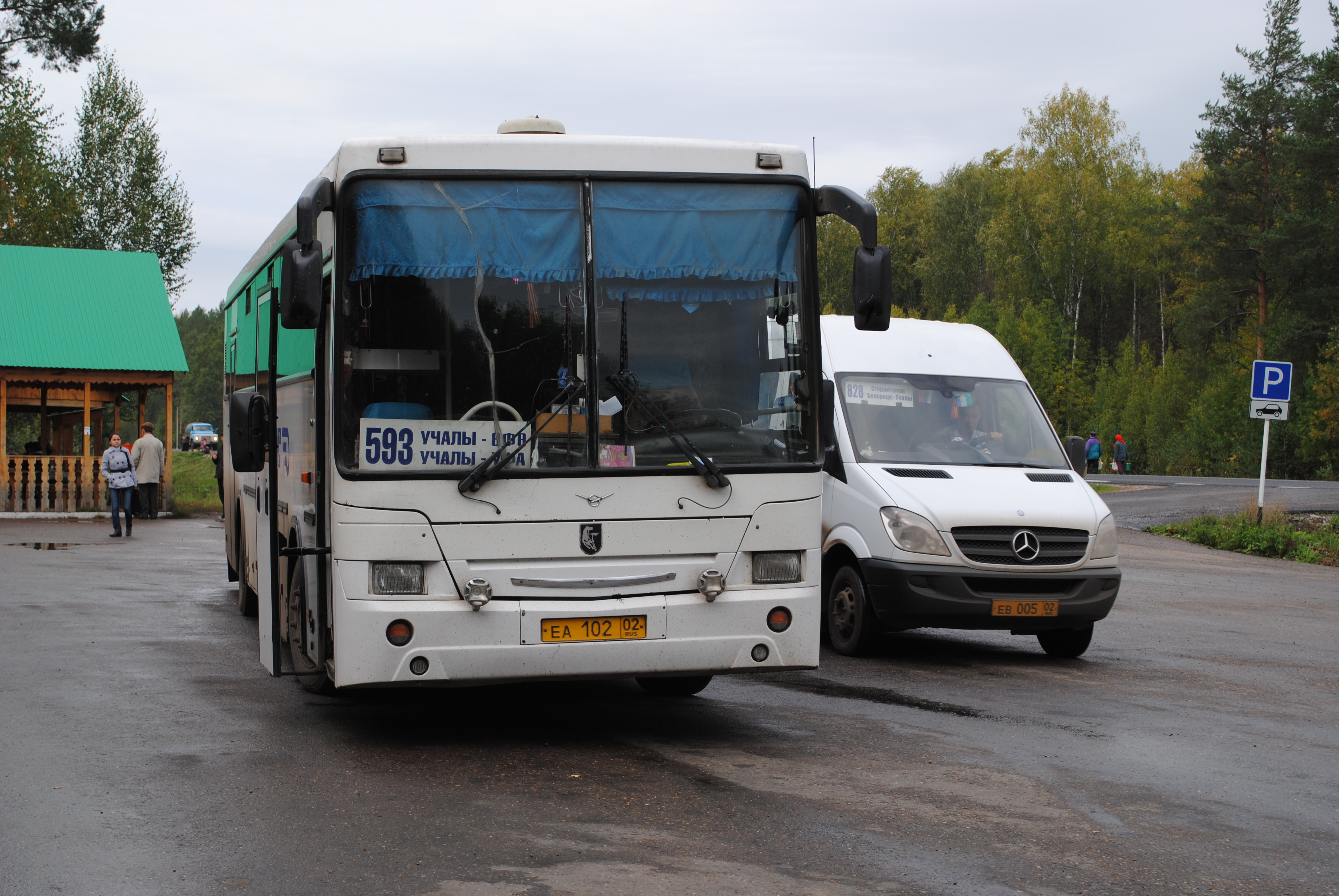 Bashavtotrans